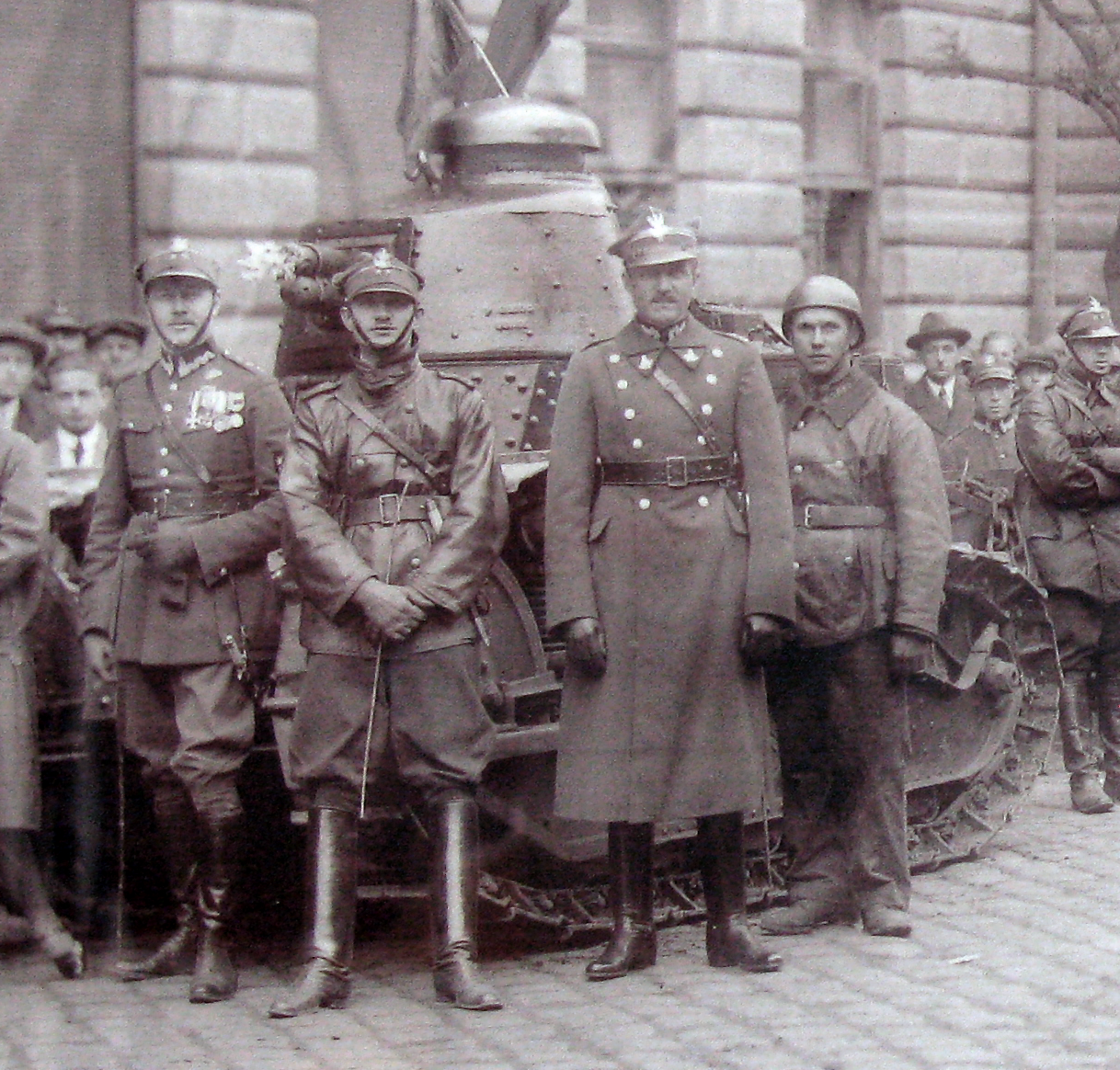 Polish Renault FT-17 tanks during military parade in Przemyśl (before 1939).